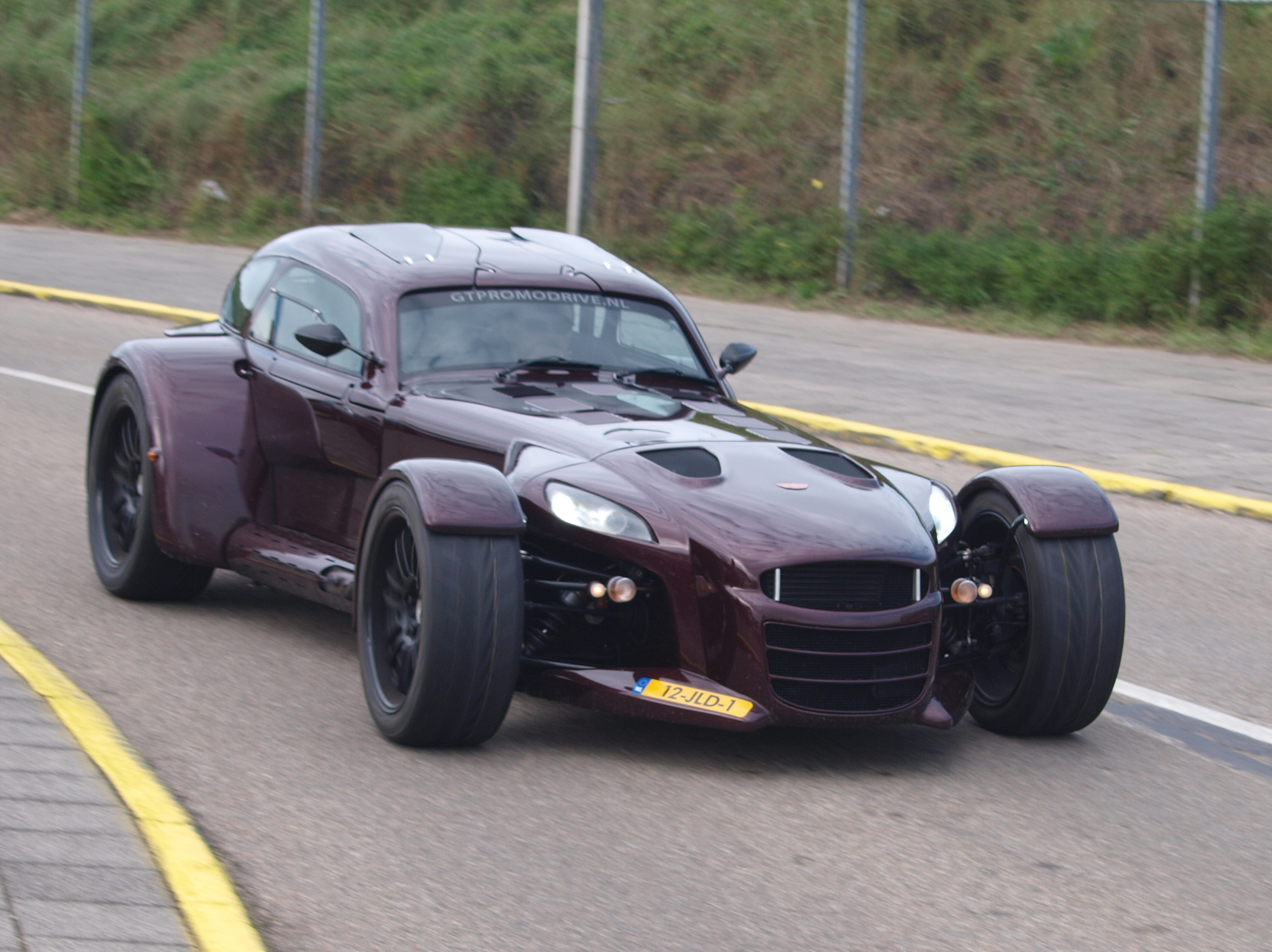 Photographed at the Nationaal Oldtimer Festival Zandvoort 2010, The Netherlands.